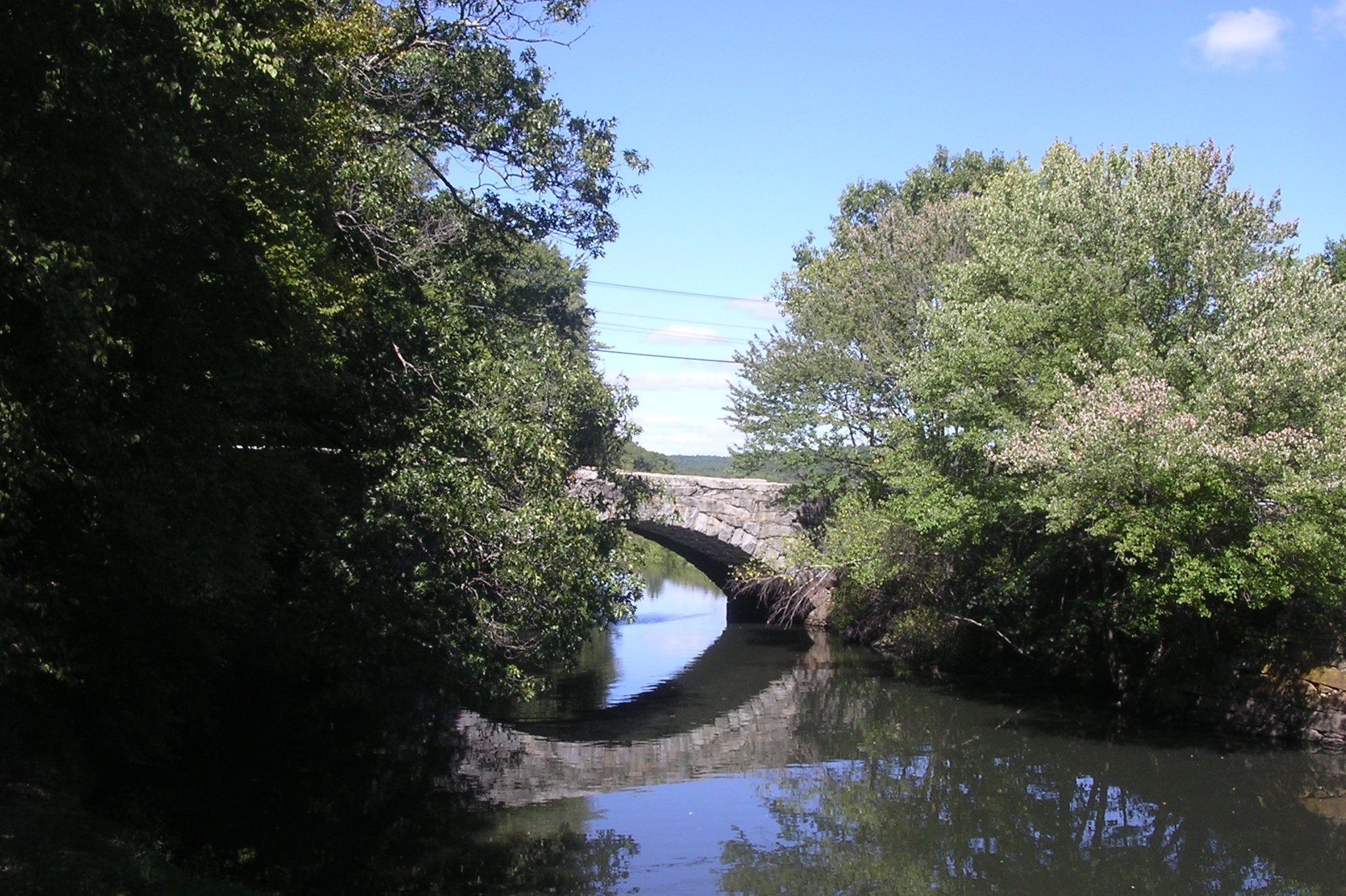 Stone Arch Bridge on Hartford Ave, Uxbridge Massachusetts